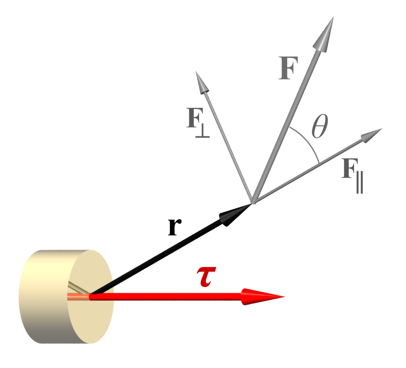 Torque and its components